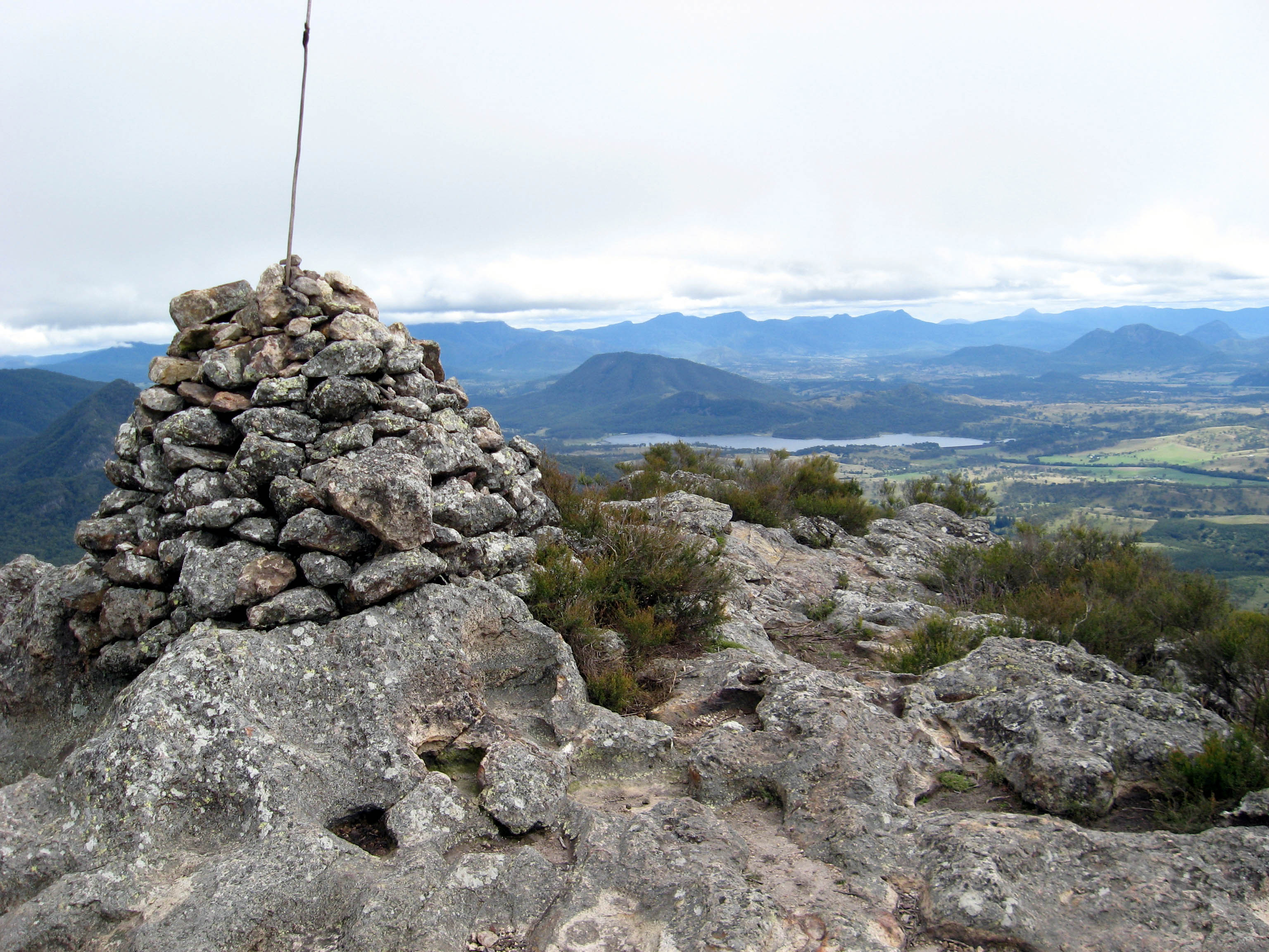 Cairn located at top of Mount Maroon, Queensland, Australia.